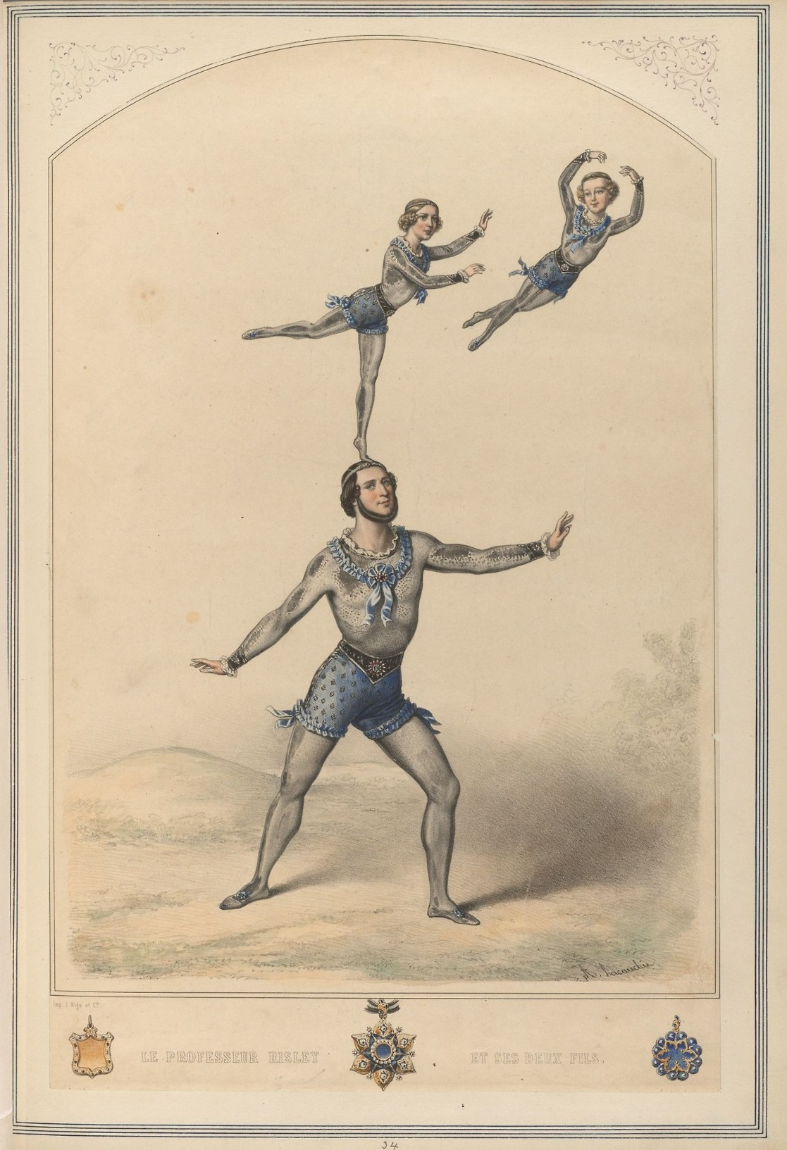 "Le Prof. Risley et ses deux fils" (p.34) from a scrapbook of the Astley's Amphitheatre. Undated, but certainly 19th century. TS 931.10, Harvard Theatre Collection, Harvard University